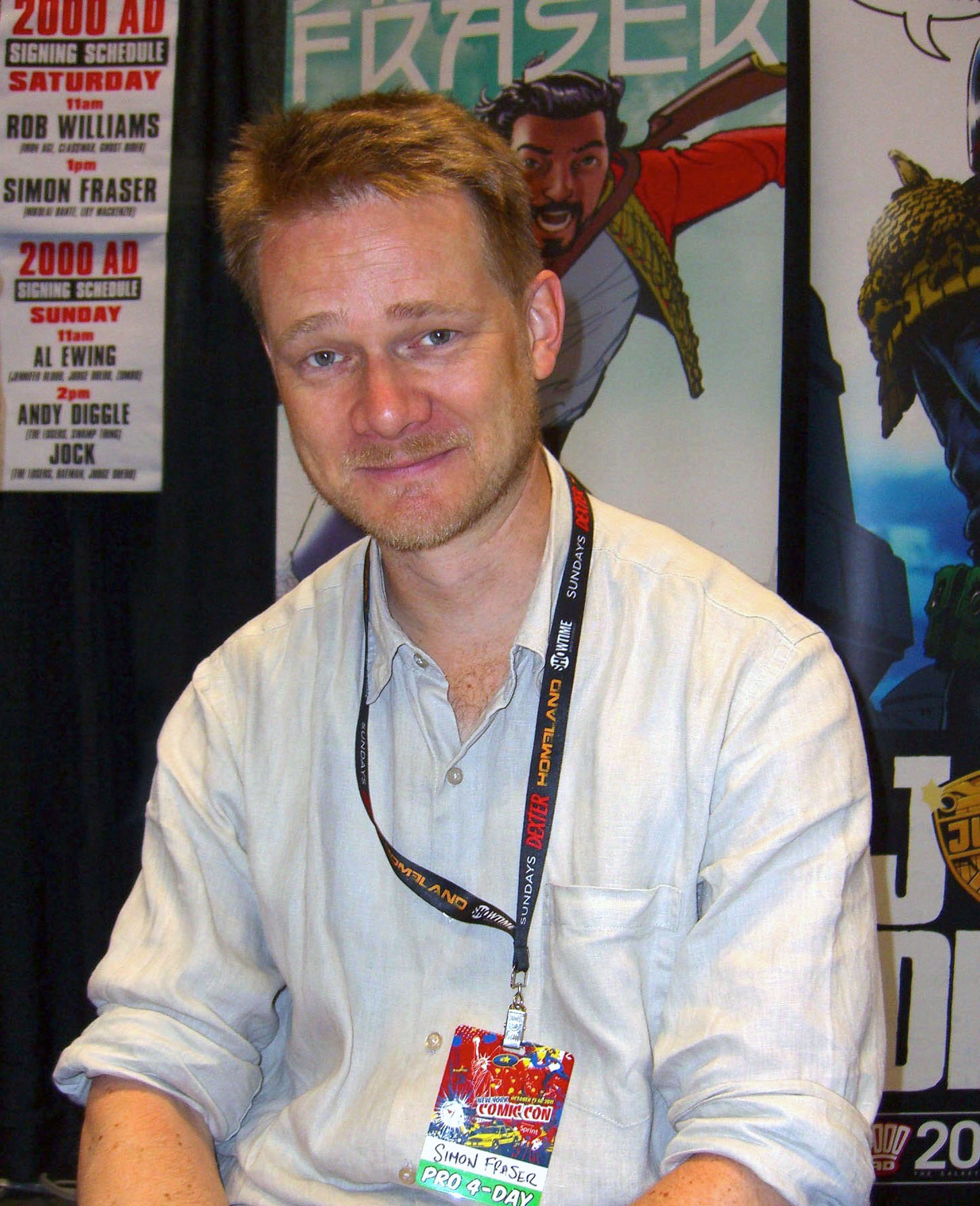 Comics creator Simon Fraser at the New York Comic Con, October 15, 2011. This photo was created by Luigi Novi. It is not in the public domain, and use of this file outside of the licensing terms is a copyright violation.